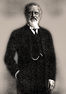 Alexander Wyneken (1848-1939)